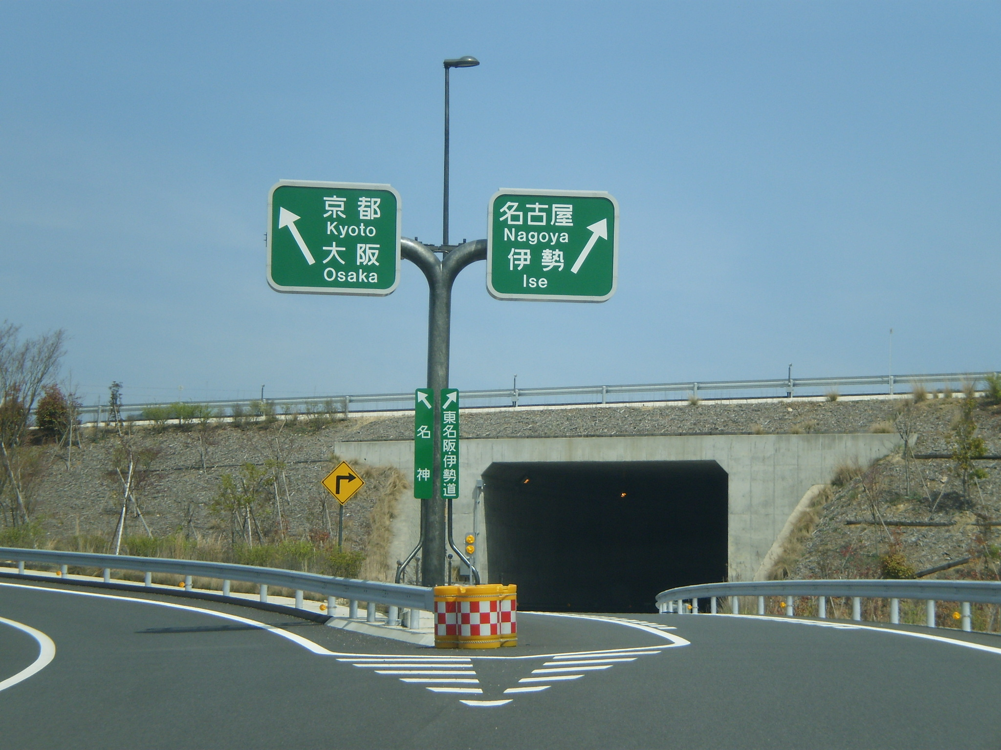 Sign of guide in entry lamp direction of Shigaraki interchange. I took this image at Kinose Shigaraki-cho Koka City Shiga Pref., Japan.